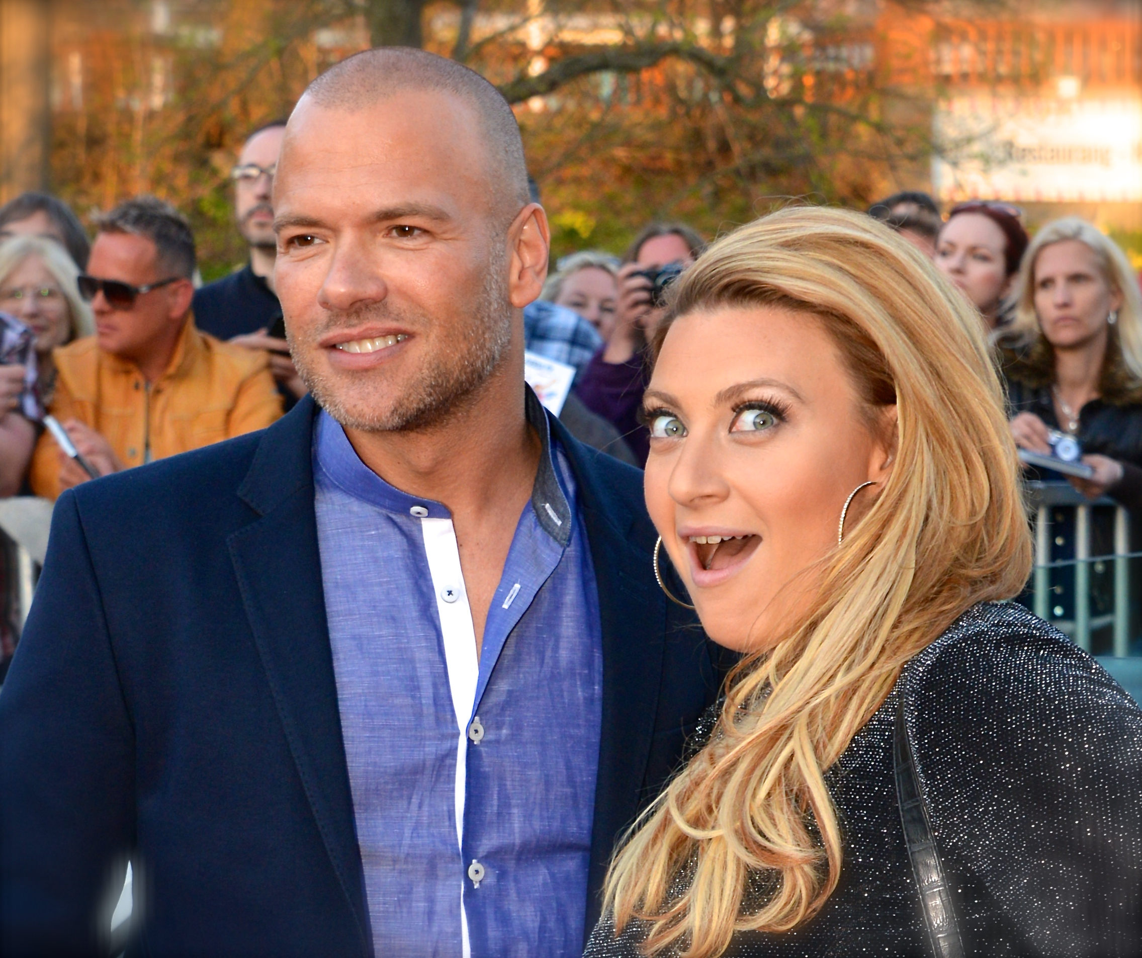 Andreas Lundstedt and Sarah Dawn during the opening of ABBA: The Museum May 6, 2013.